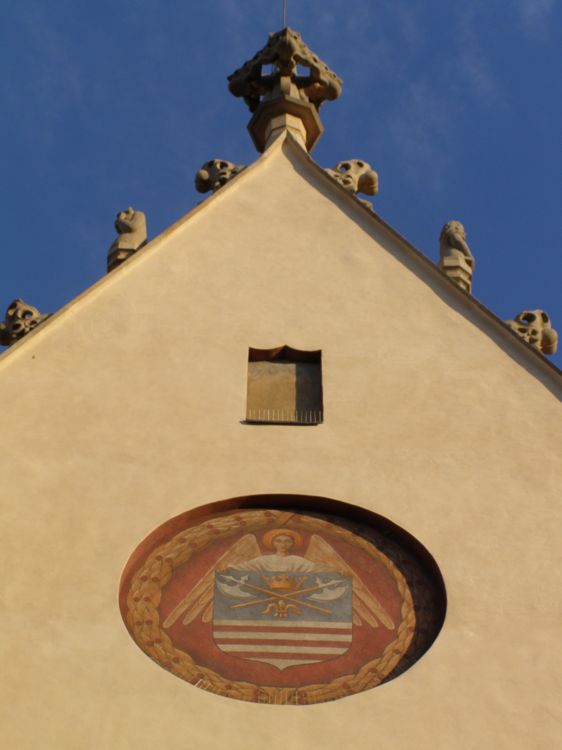 Bardejov This medium shows the protected monument with the number 701-1677/0 in the Slovak Republic.